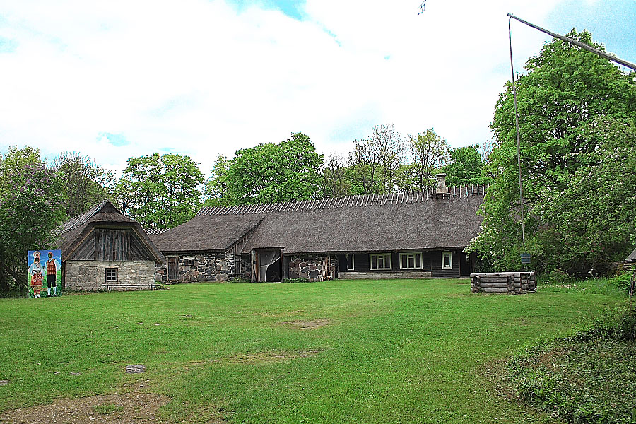 Muhu museum in Koguva village on Muhu island in Estonia.Collection of ethnographic textiles and traditional farming tools housed in a museum farm.